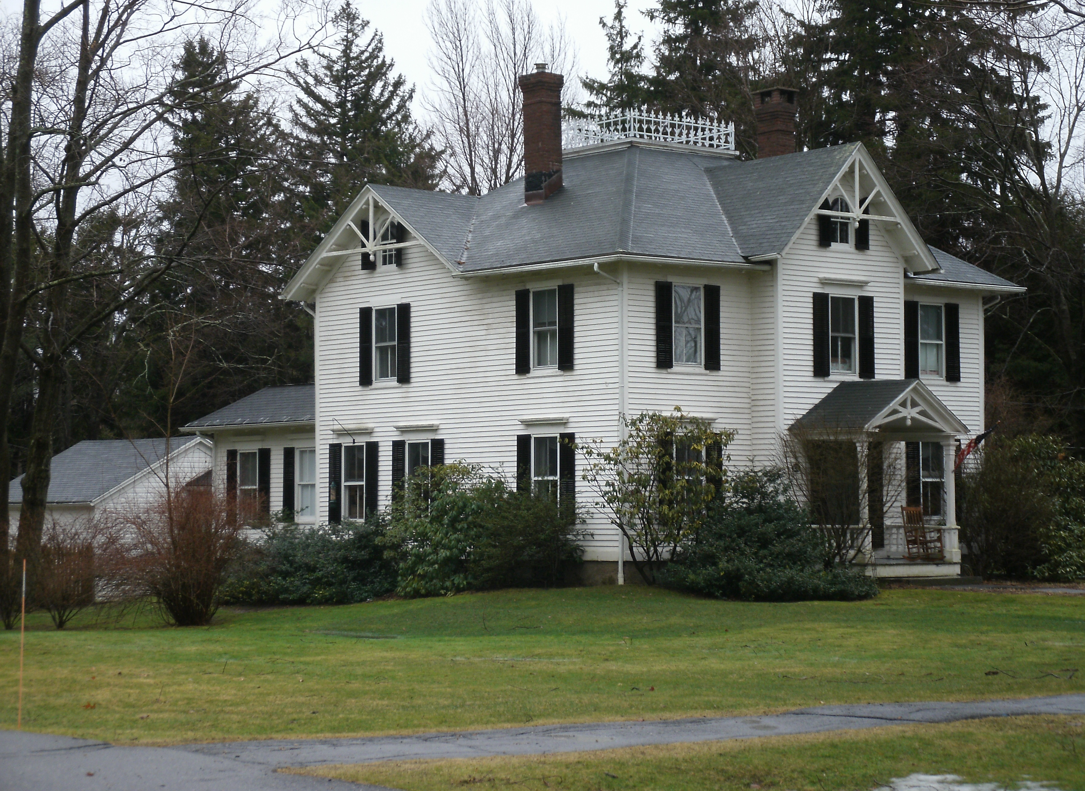 House at or adjacent to 127 South Street, showing Stick Style architecture, in Litchfield Historic District, Litchfield, Connecticut